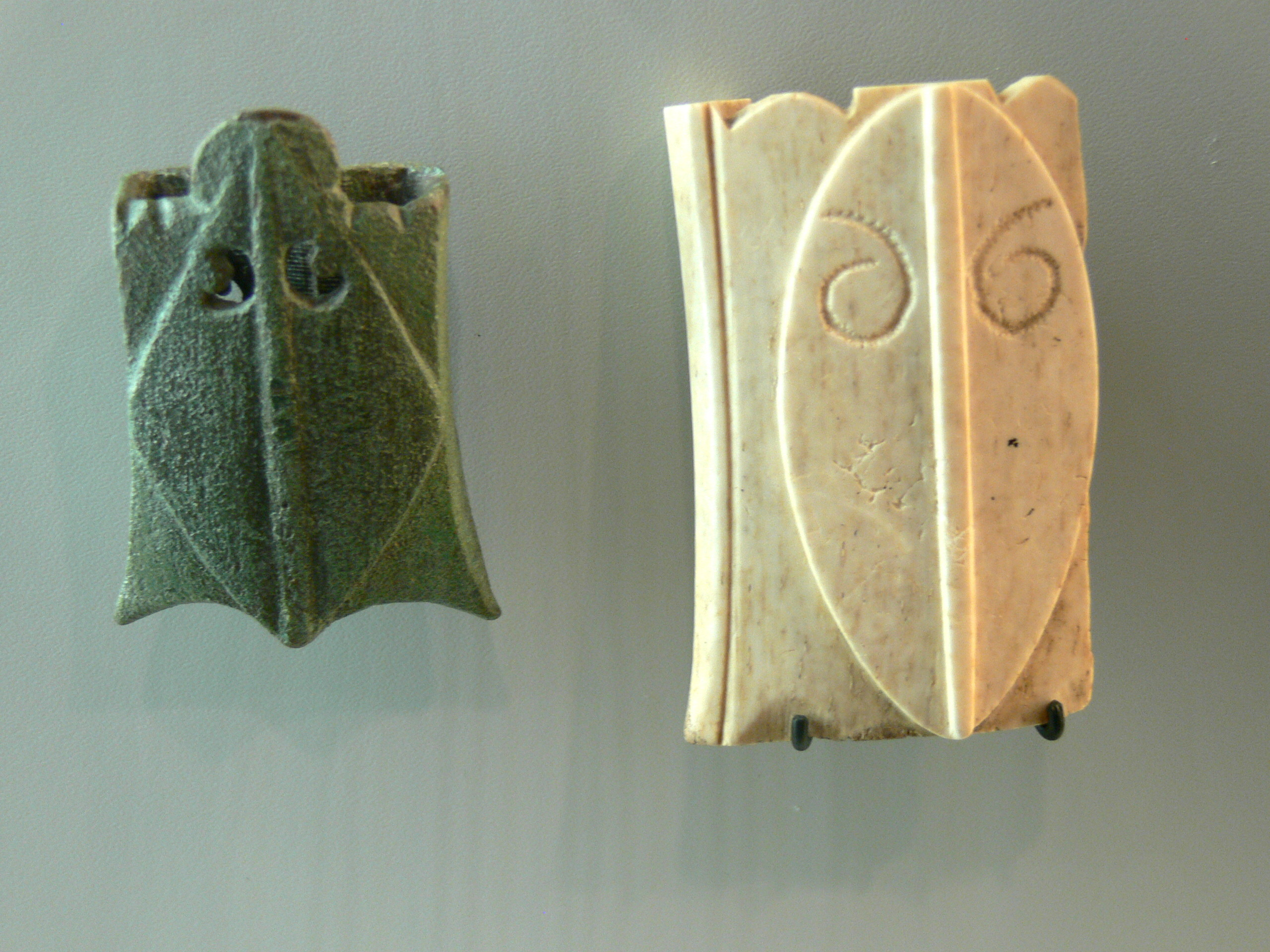 Museum Quintana - Roman department. Roman ortbands ( lower parts of a sword sheath )